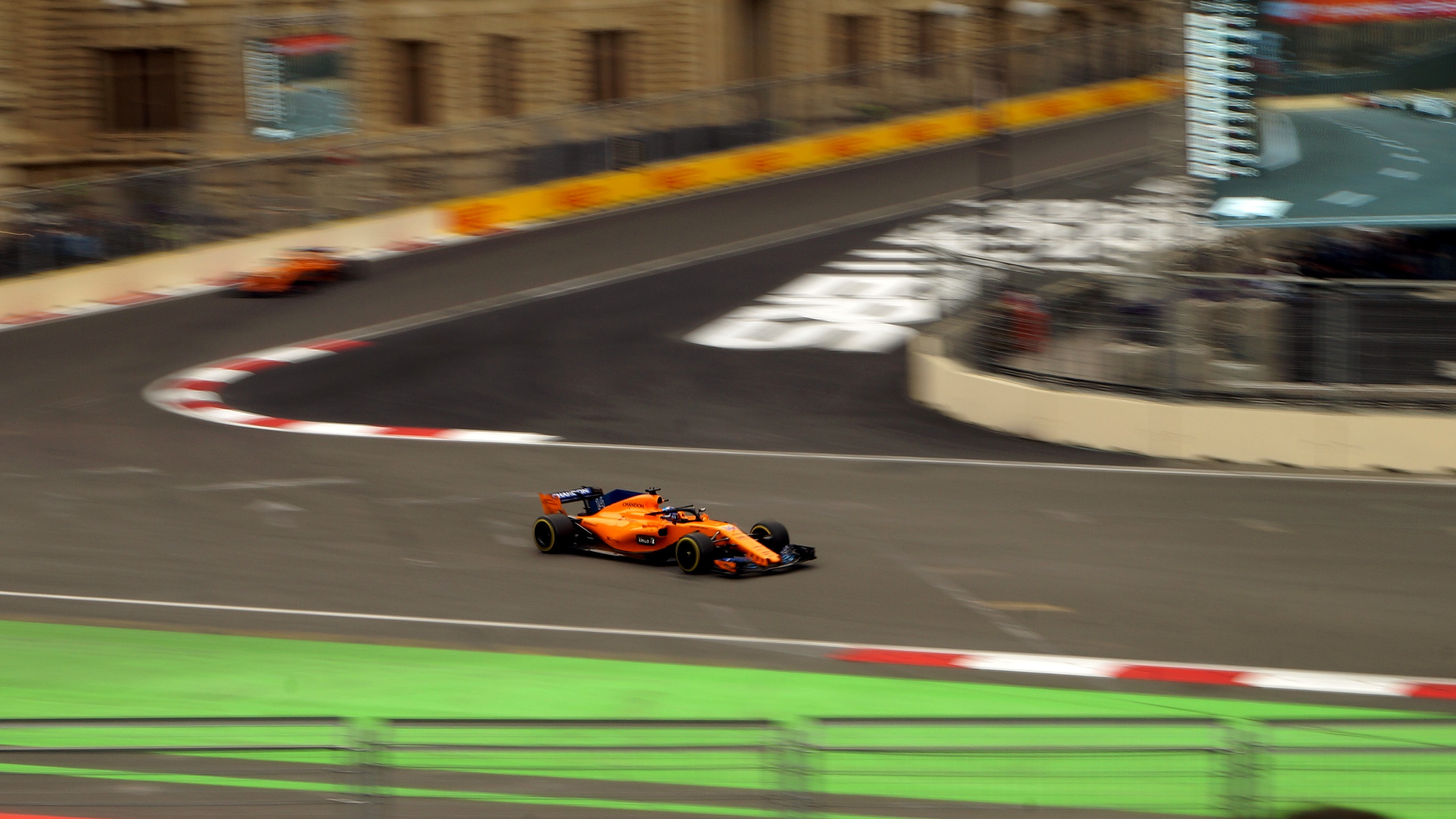 Fernando Alonso during Azerbaijan GP in 2018